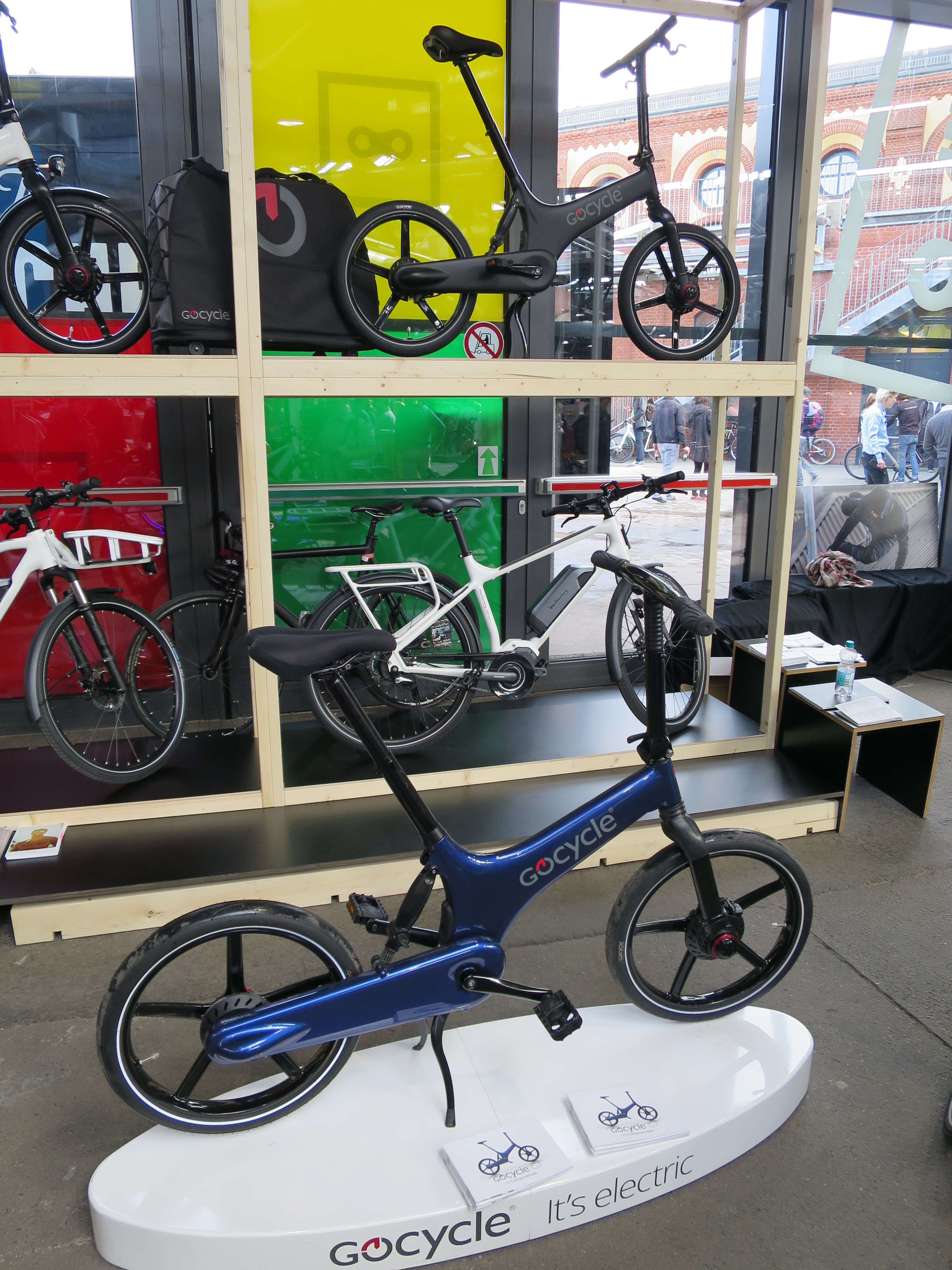 GoCycle folding bike Berliner Fahrradschau 2017.